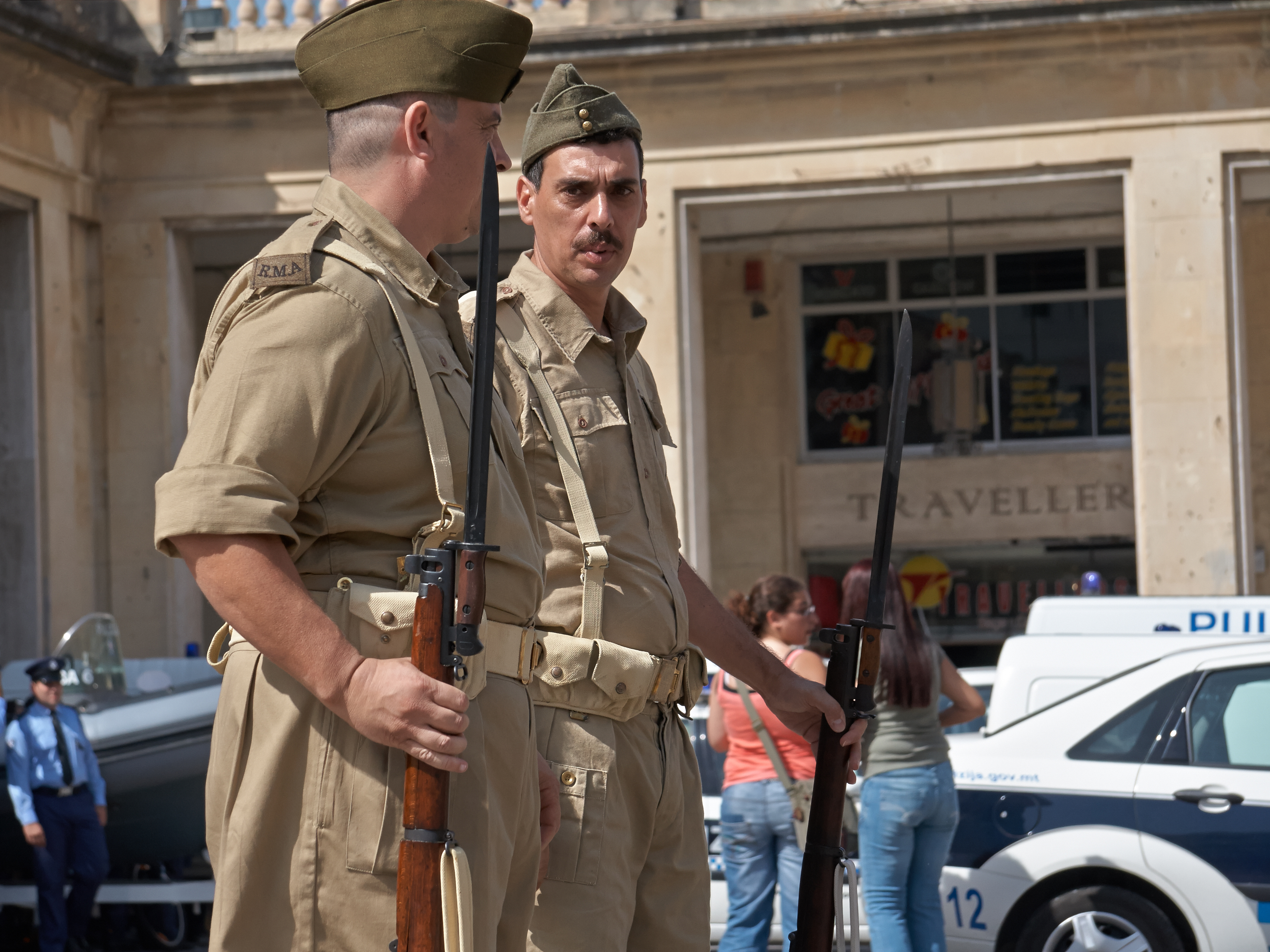 Valletta